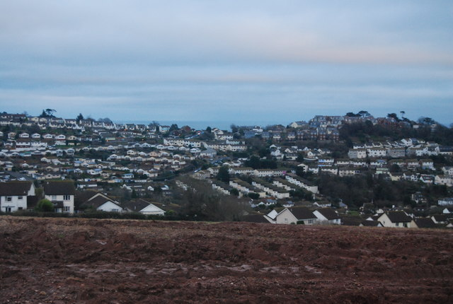 Coombe